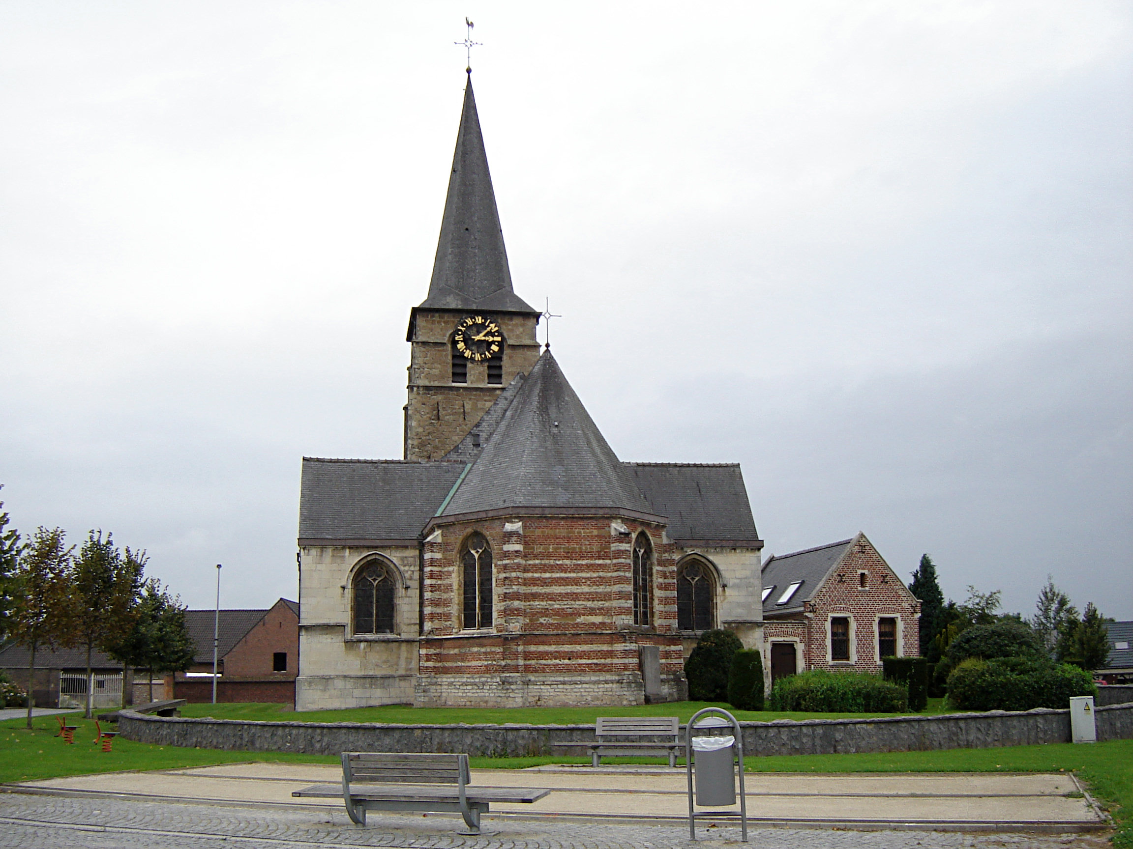 Church of Saint Martin in Massemen. Massemen, Wetteren, East Flanders, Belgium